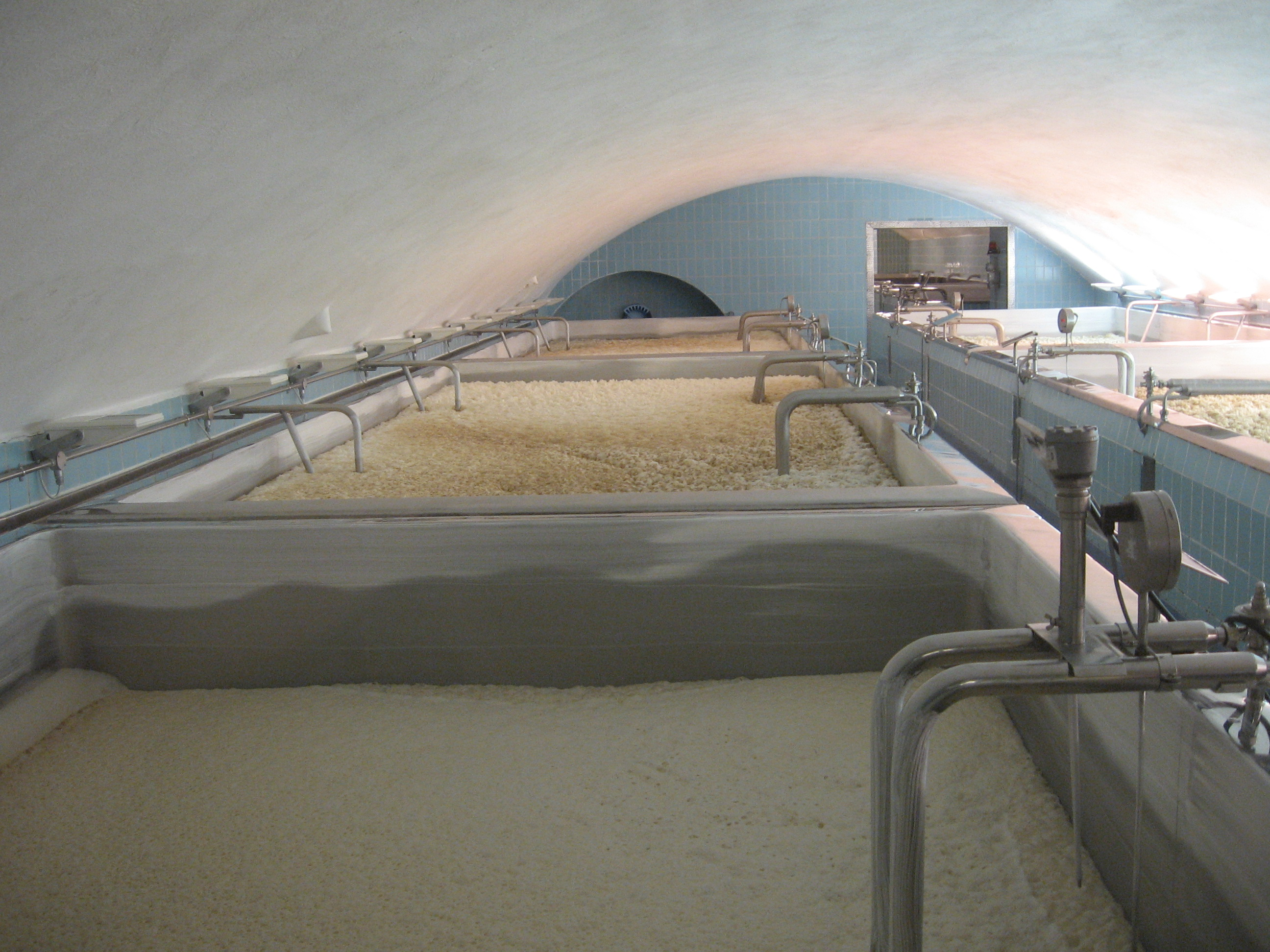 Privatbrauerei Hoepfner, a German Brewery near Karlsruhe. This image: Fermenting